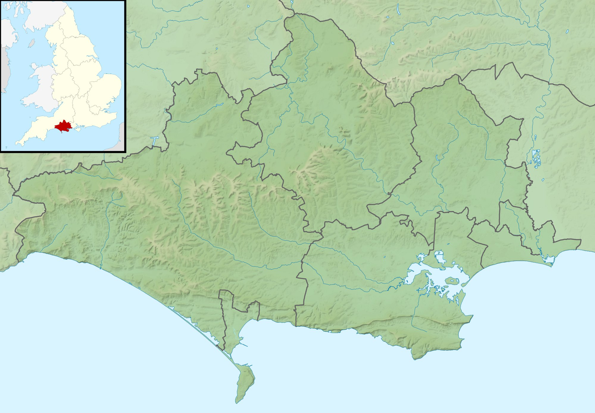 Relief map of Dorset, UK. Equirectangular map projection on WGS 84 datum, with N/S stretched 155% Geographic limits: West: 2.99W East: 1.65W North: 51.10N South: 50.50N